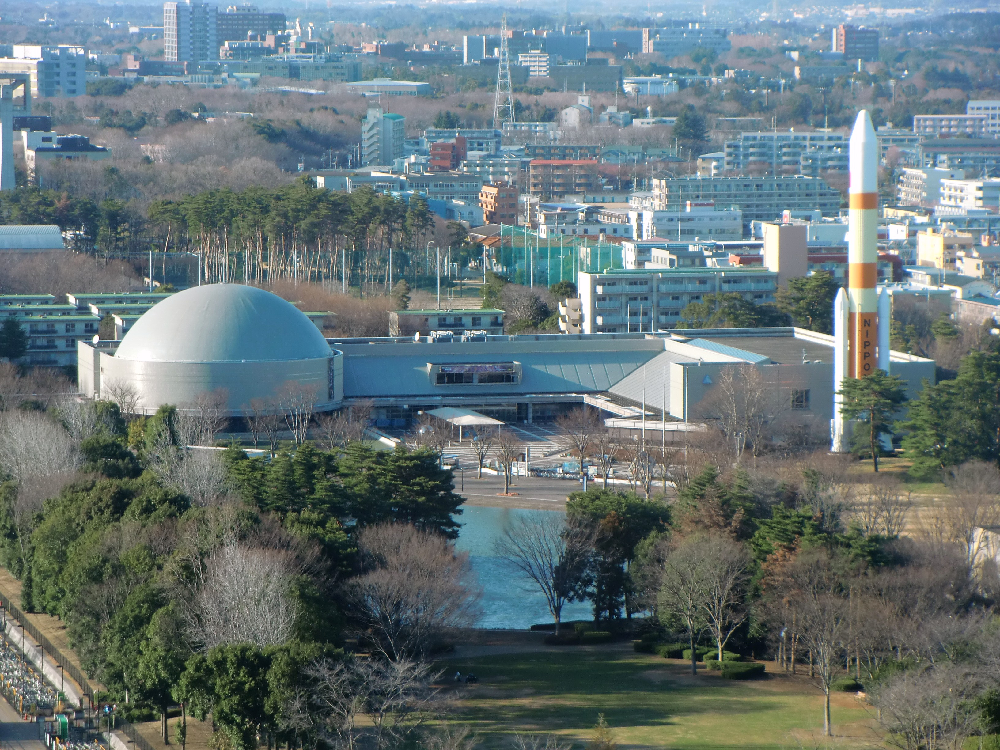 Tsukuba Expo Center museum building and H-II model rocket in Azuma 2-chome, Tsukuba city, Ibaraki prefecture, JAPAN. This picture was taken from Tsukuba Mitsui Building 19th floor.